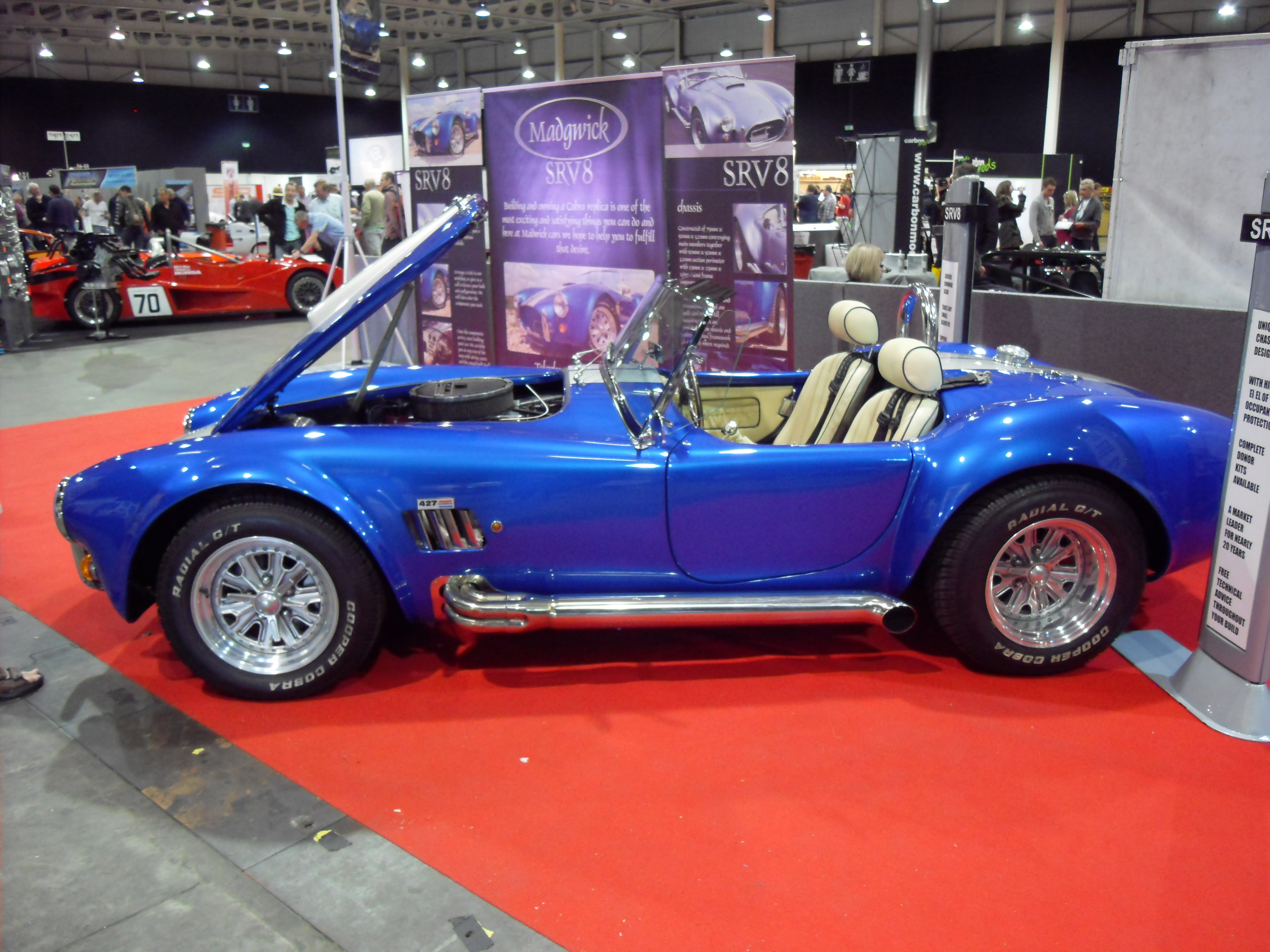 National Kit Car Show Stoneleigh 2011